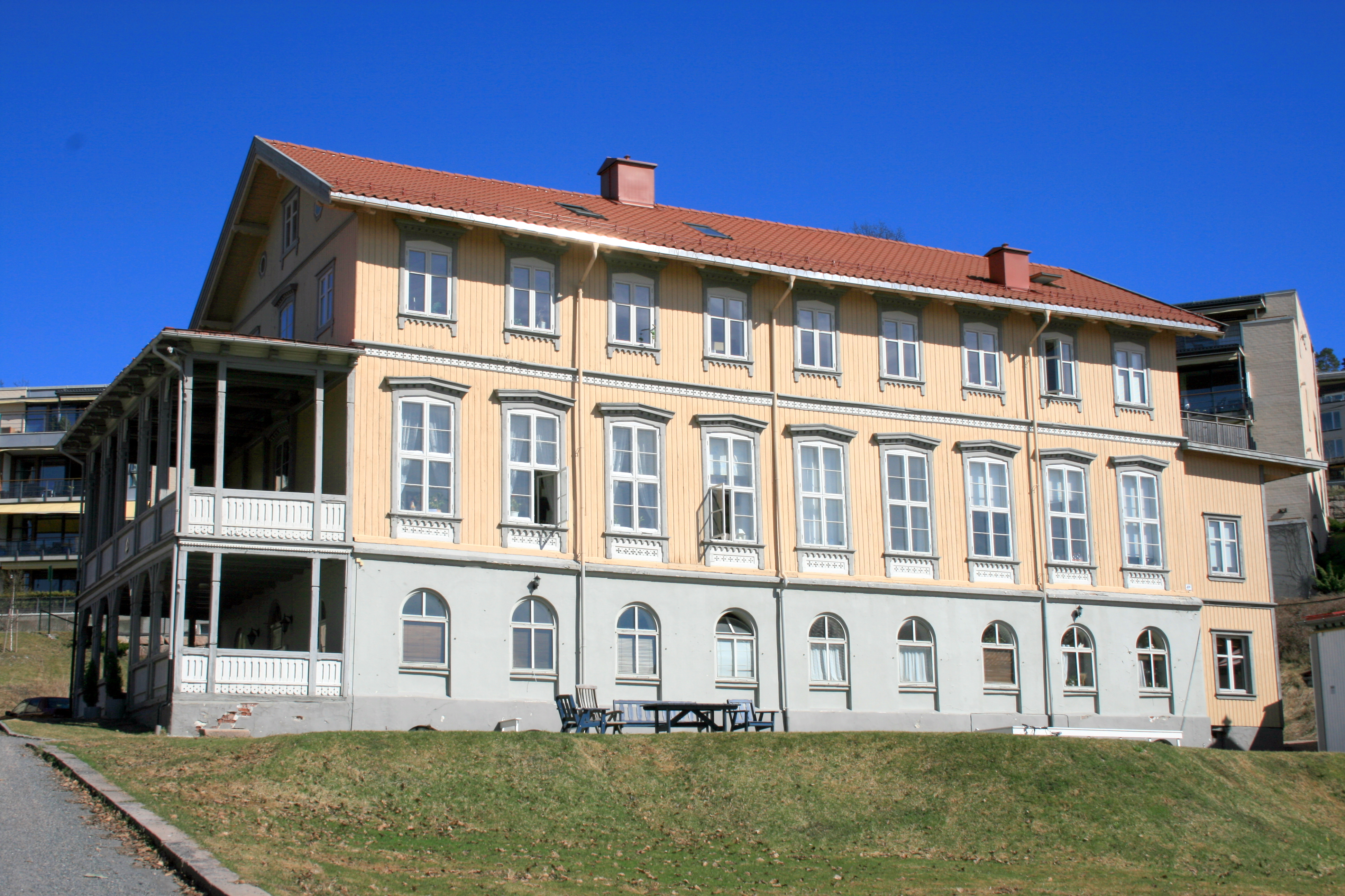 Grefsen Sanatorium, Oslo, Norway.